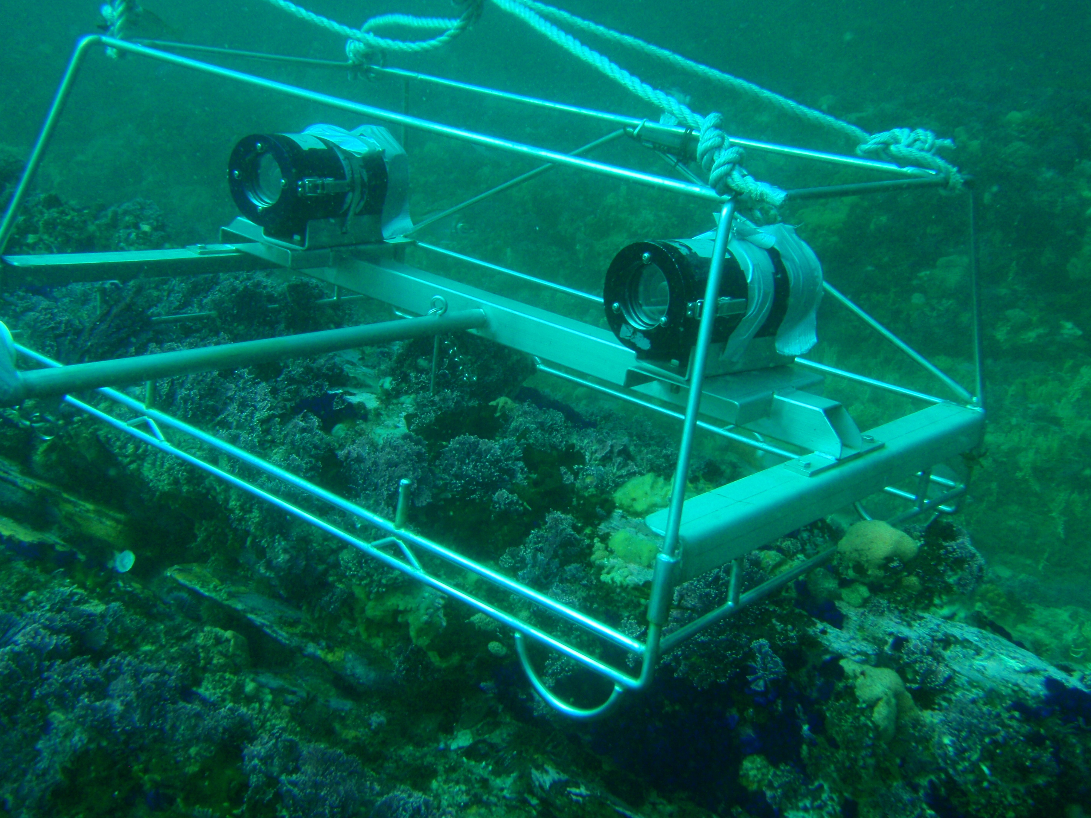 Stereo BRUV prototype on trial at Rheeders' Reef, Tsitsikamma